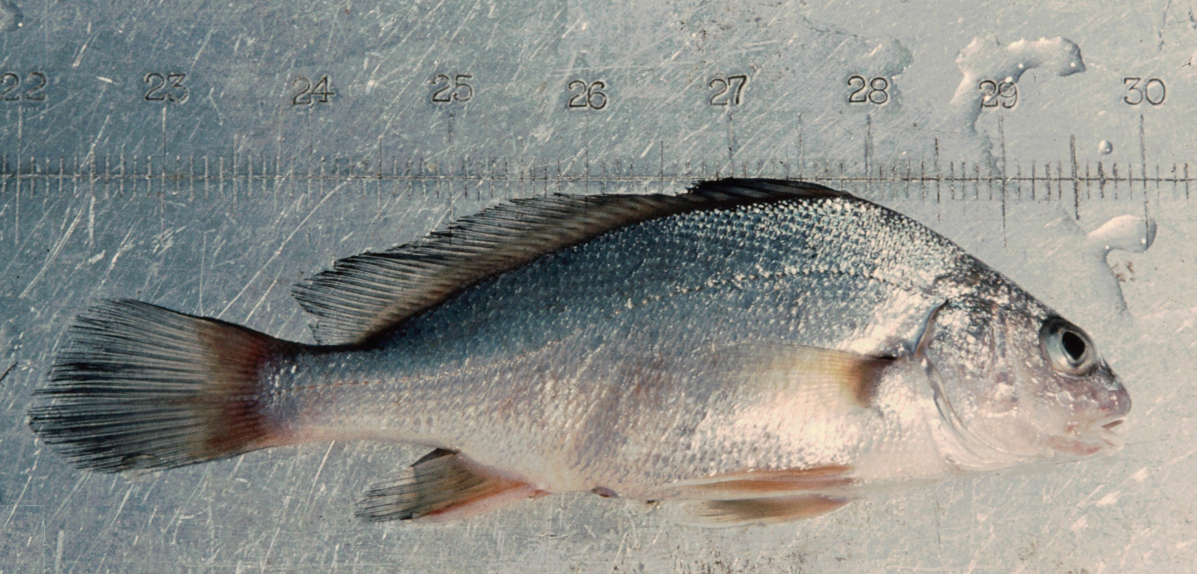 Aplodinotus grunniens from Lake Winnebago near Oshkosh, Wisconsin. Maßstab: Inches, 17.06.1959